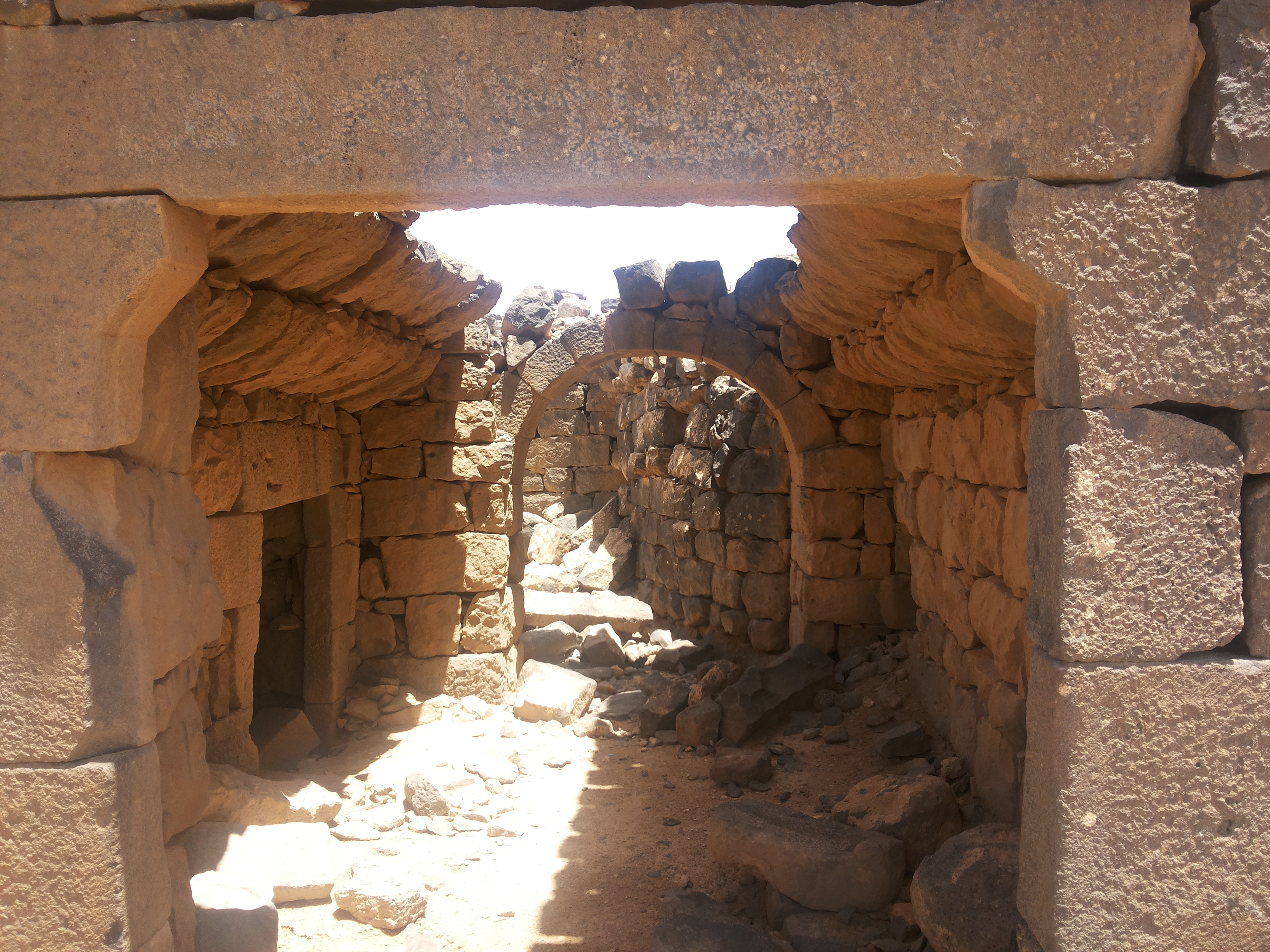 Umm al Jamal, Mafraq, Jordan